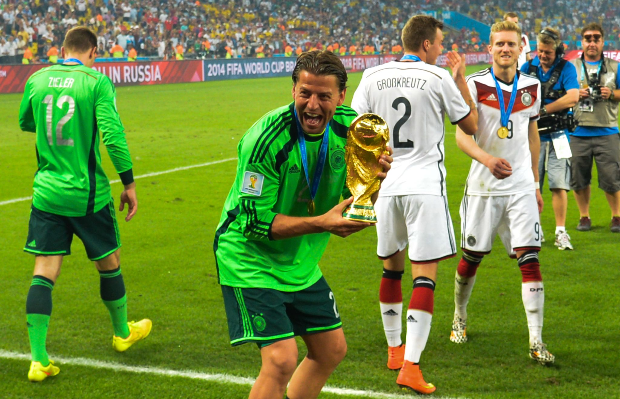 Germany wins it's 4th FIFA World Cup, after beating Argentina 1-0.